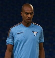 Abdoulay Konko